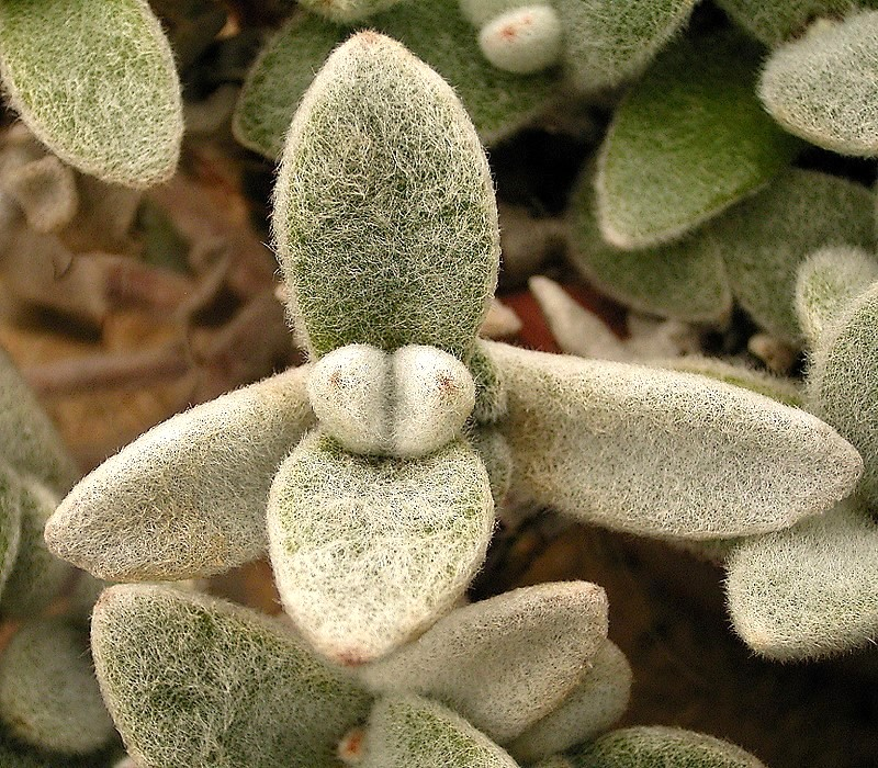 Kalanchoe eriophylla